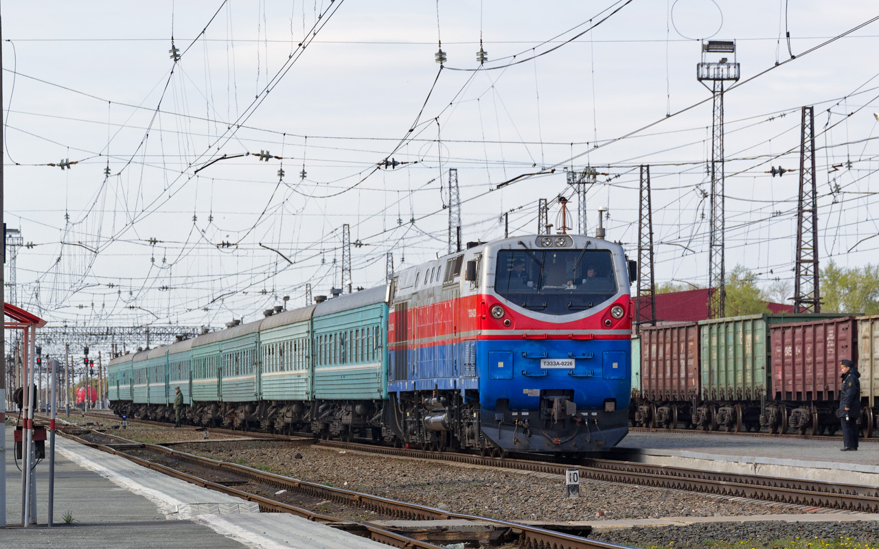 Diesel locomotive TE33A-0226 with passenger train № 39 (Saint Petersburg — Astana) at Troick station, Chelyabinsk region, Russia